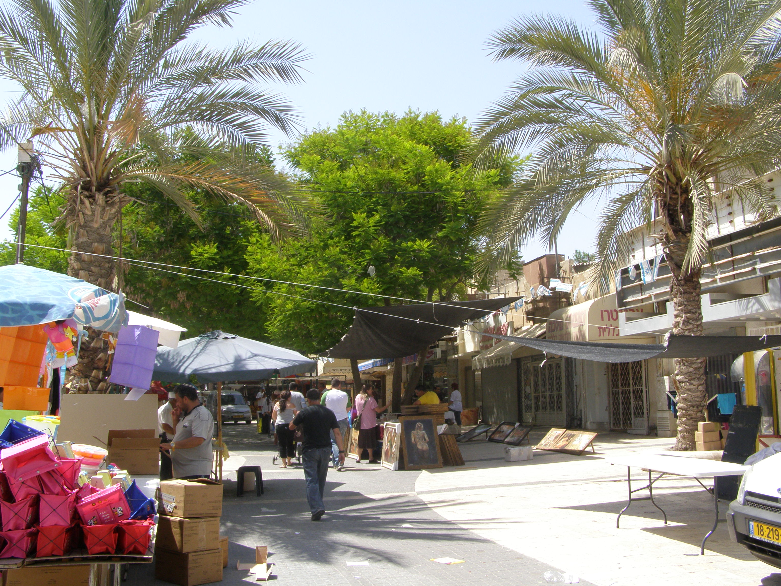 Beersheba, Old City, Kakal street